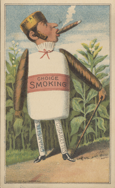 Persistent URL: Subject (TGM): Caricatures; Men; Cigarettes; Cigars; Tobacco products; Smoking; Tableware; Teapots; Dry goods stores; Grocery stores; Premiums; Coffee; Baking powder; Smokeless tobacco; Keywords: Premium 27